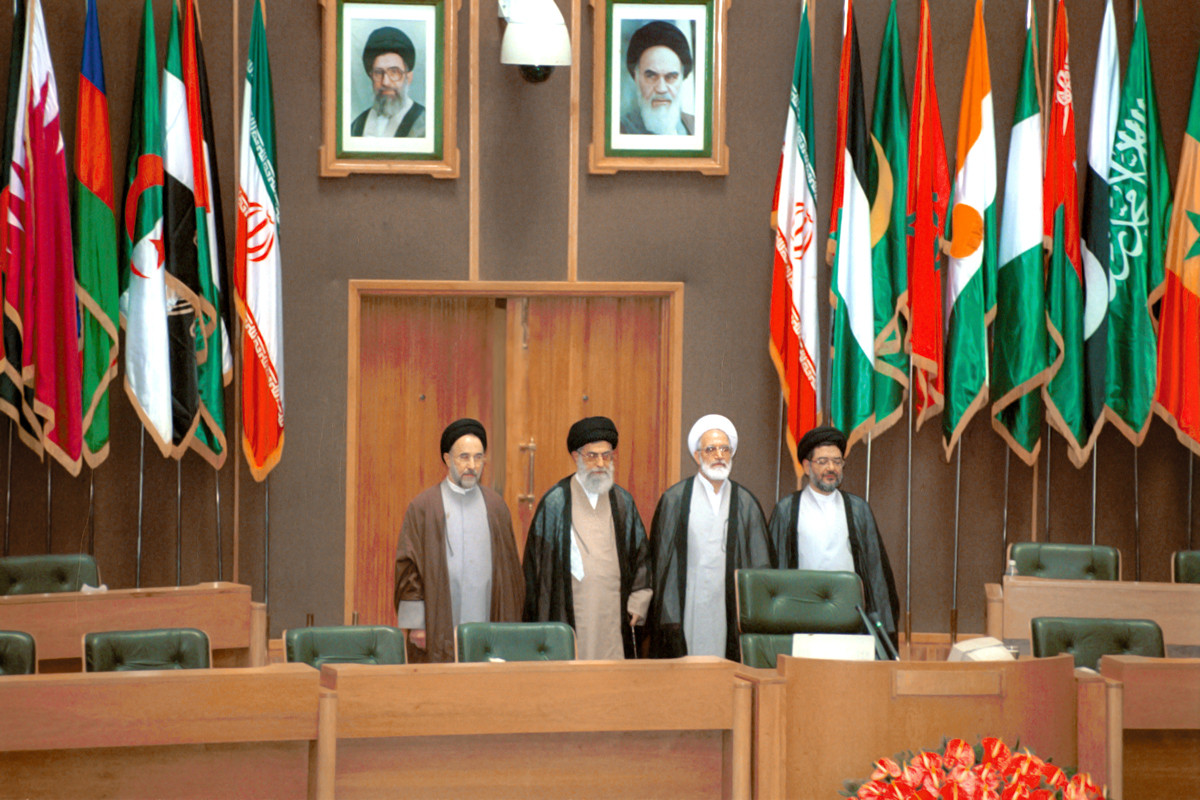 Islamic World Media Conference on in support of the Palestinian Intifada (13801111 0225796) Album